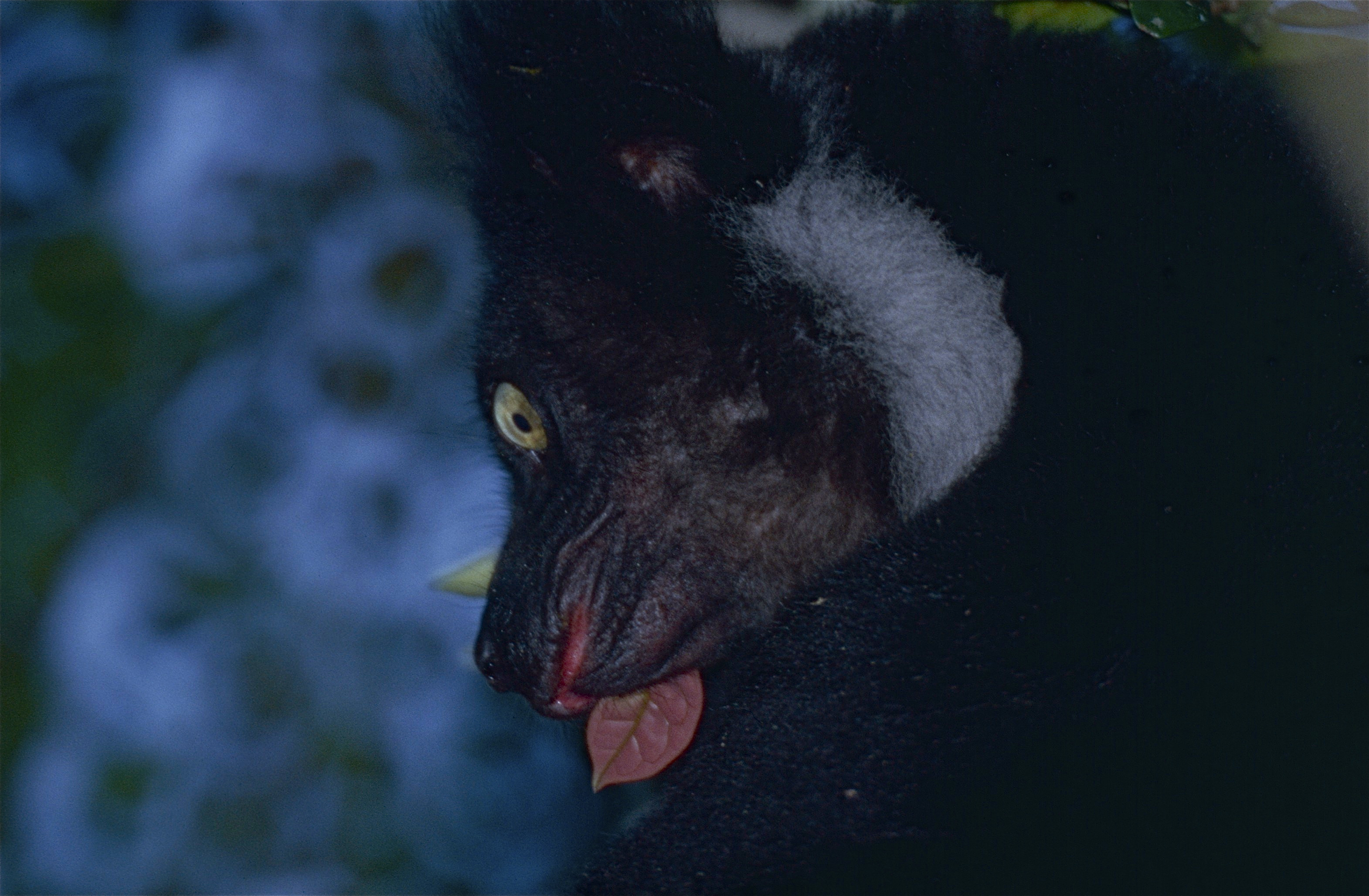 Analamazaotra Reserve, Perinet, MADAGASCAR Scanned Slide from 1998